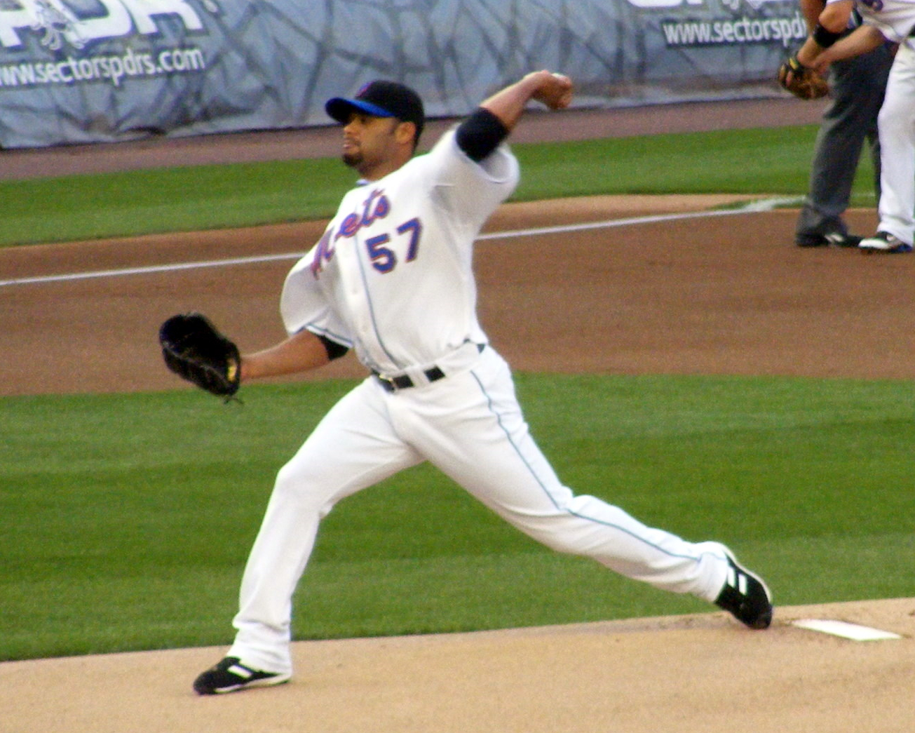 Johan Santana pitching for the New York Mets on June 23, 2008